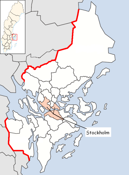 Stockholm Municipality in Stockholm County Designed by me. Mere outlines are a PD source from